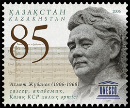 Stamp of Kazakhstan